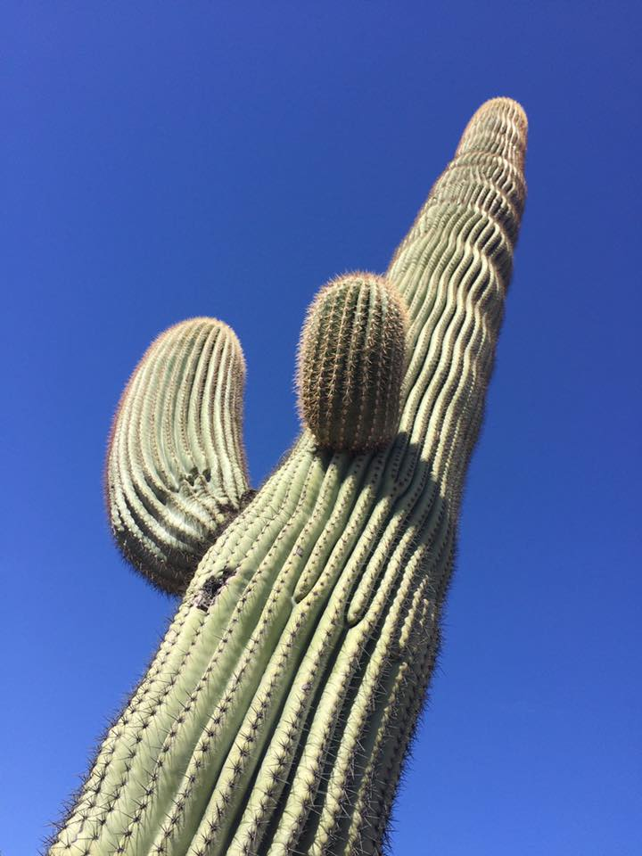 Cactus